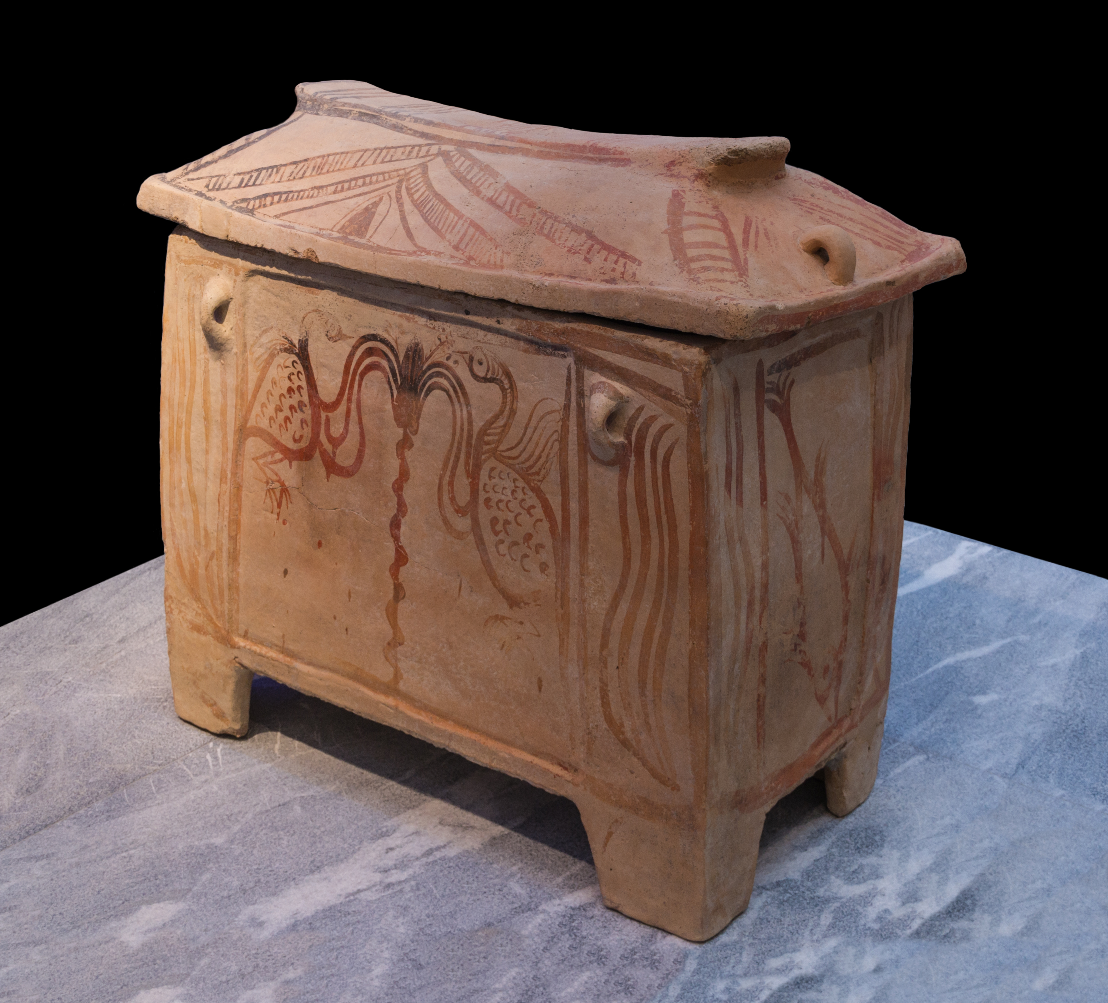 A minoan clay sarcophagus, with birds